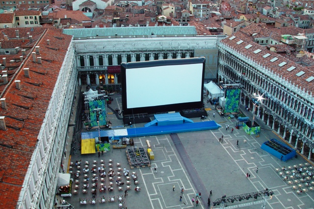 Movie Premiere in Venice, Piazza San Marco